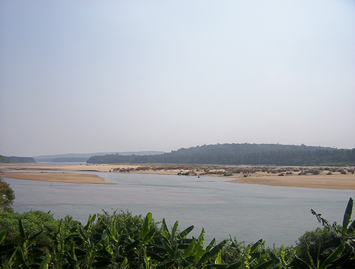 This is a photograph taken by self.